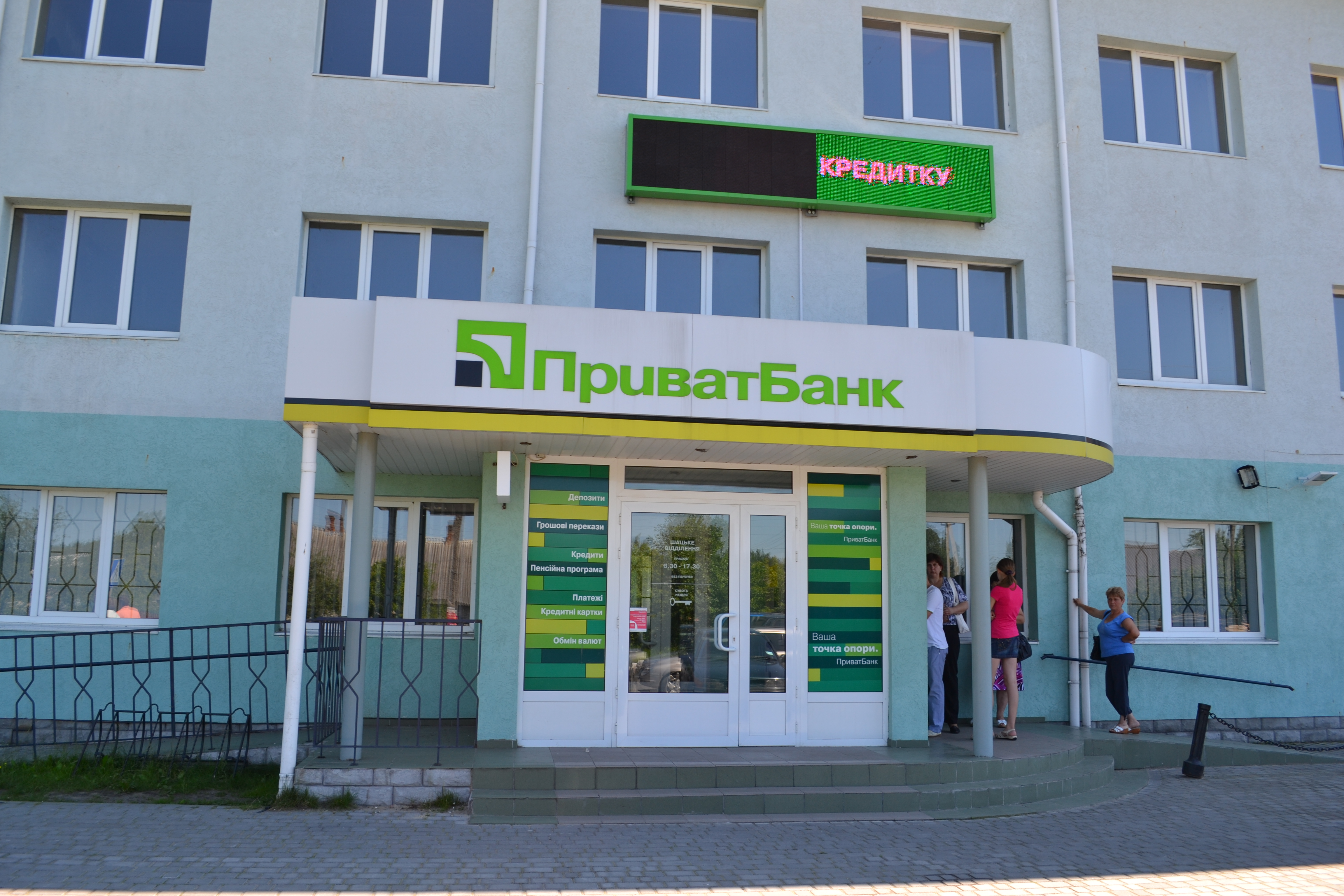 Bank branch in the Shack, Ukraine